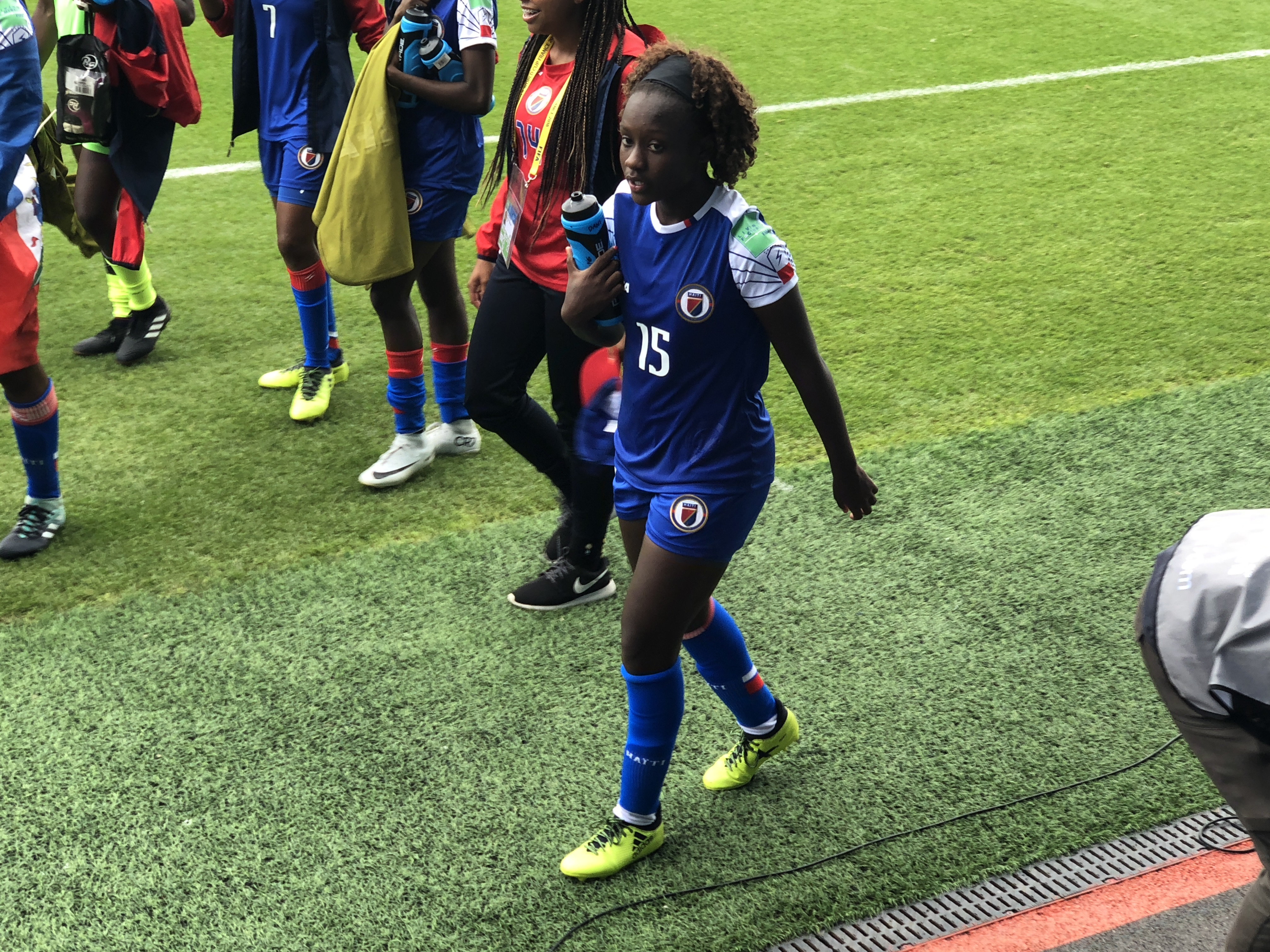 Danielle Etienne playing for Haiti at the 2018 FIFA U-20 World Cup in France.